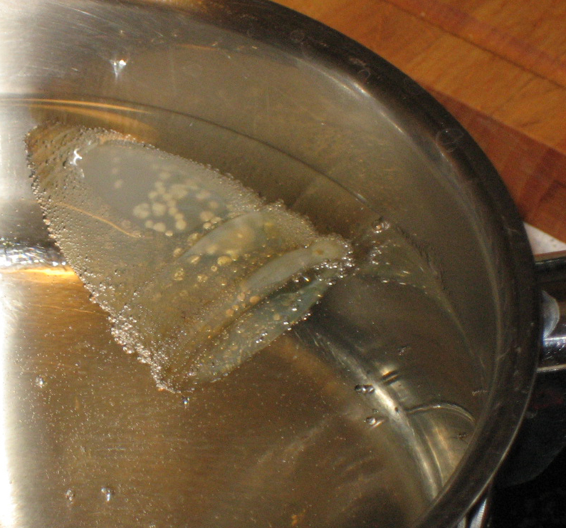 Silicone menstrual cups can be boiled. This picture shows a menstrual cup being cleaned by boiling it.